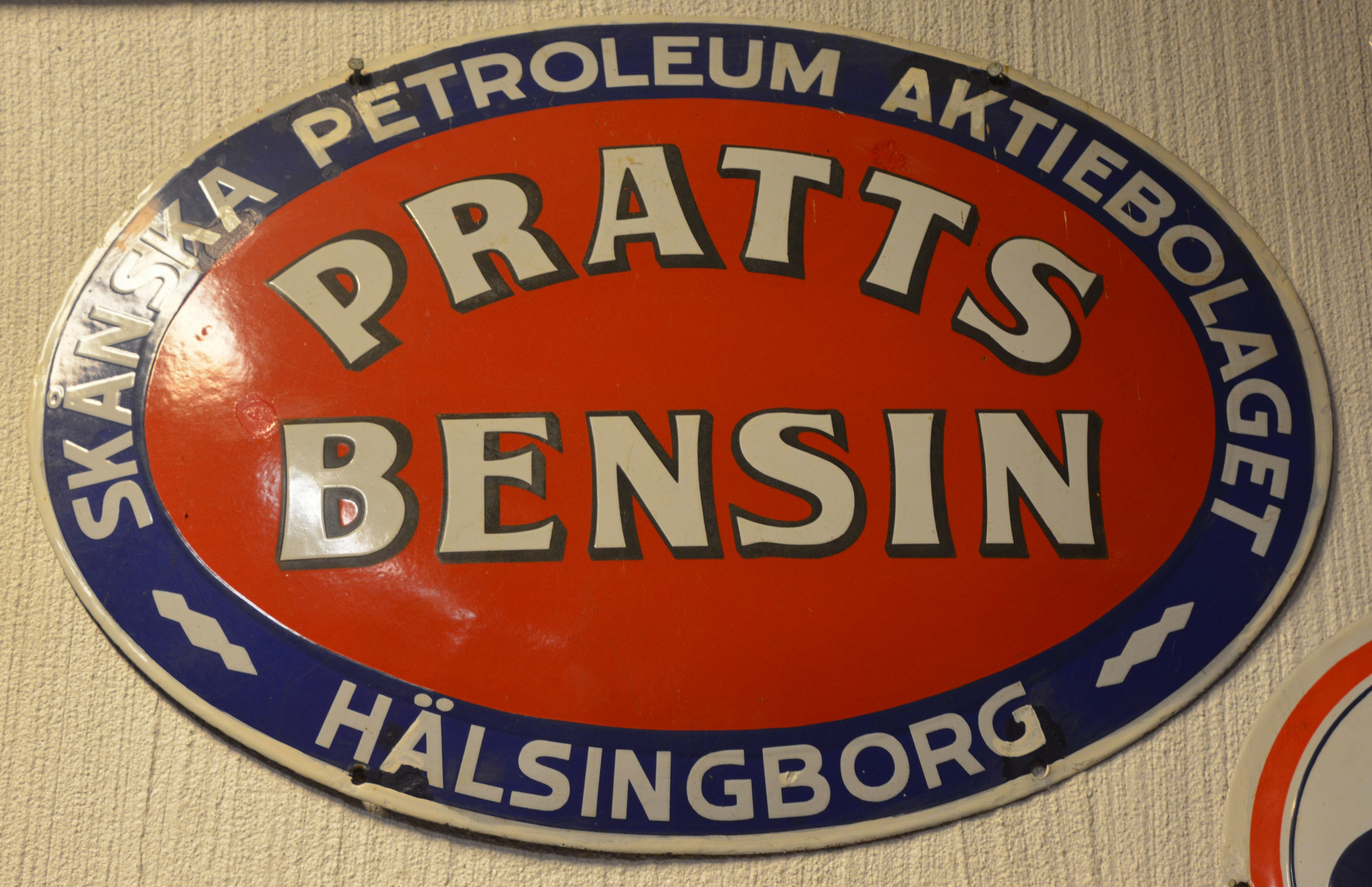 Sign for Pratts petroleum, Sweden